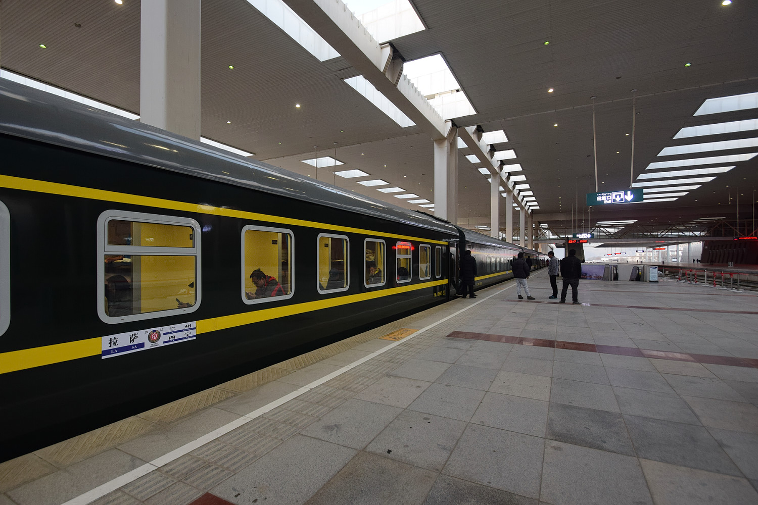 Z6802 (Z6801/6802/917/918) 25T train was preparing for departure at Platform 3 of Lhasa Railway Station.